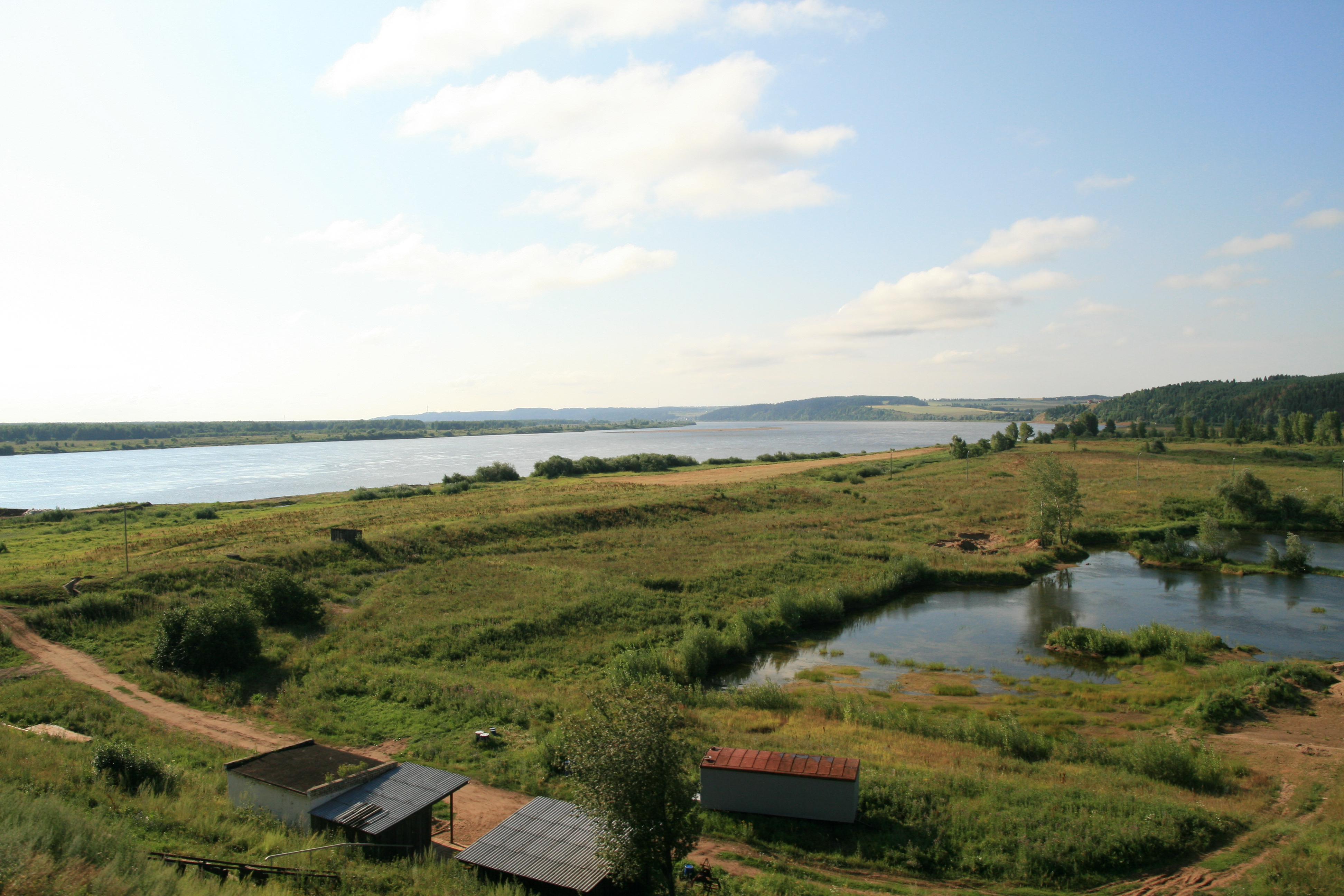 Shortly after leaving Sarapul station I noticed a large body of water up ahead: The train was approaching the Kama river.